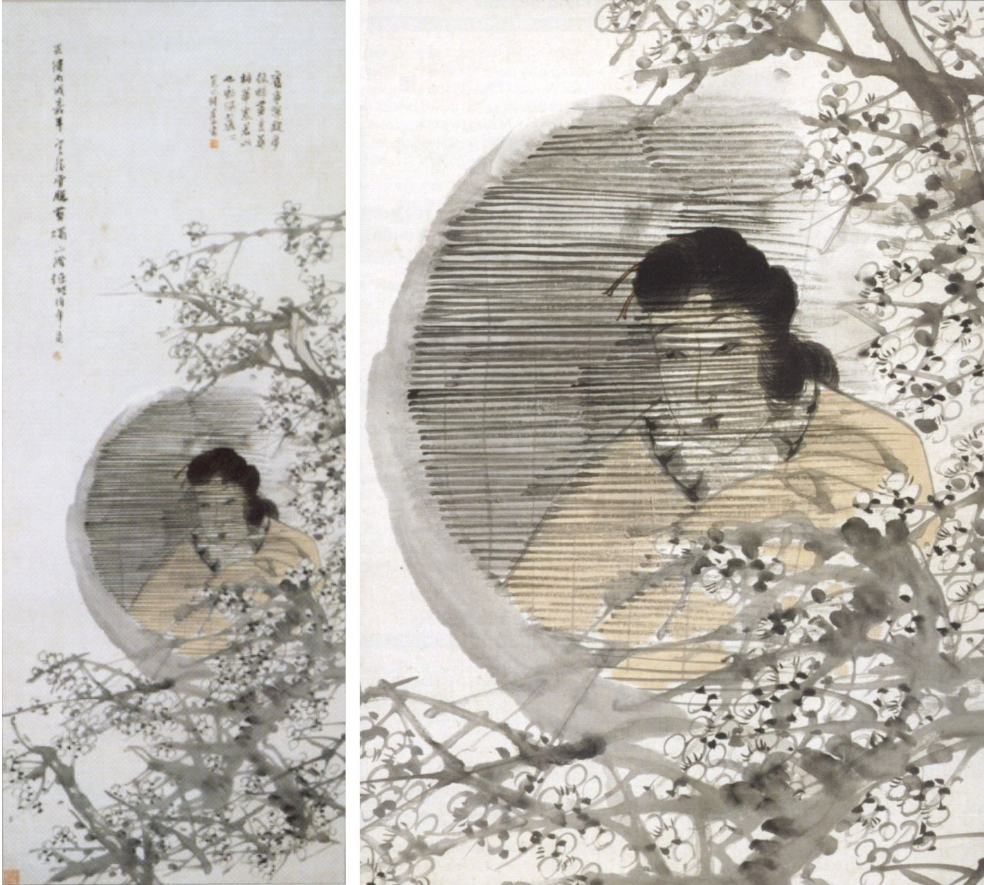 Portrait of Gao Yong's Wife, ink on paper by Ren Yi (1840-1896), 1886, Honolulu Academy of Arts, detail and entire scroll